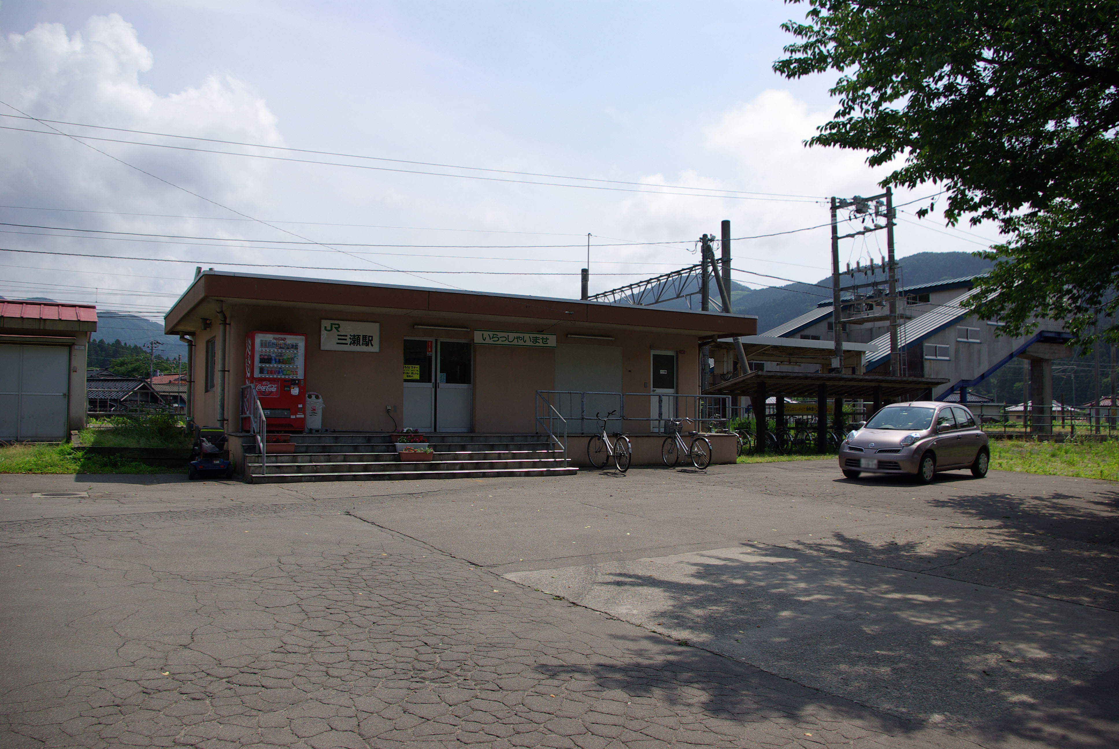 Sanze Station on JR Uetu Main Line (Japan East Railway Company)